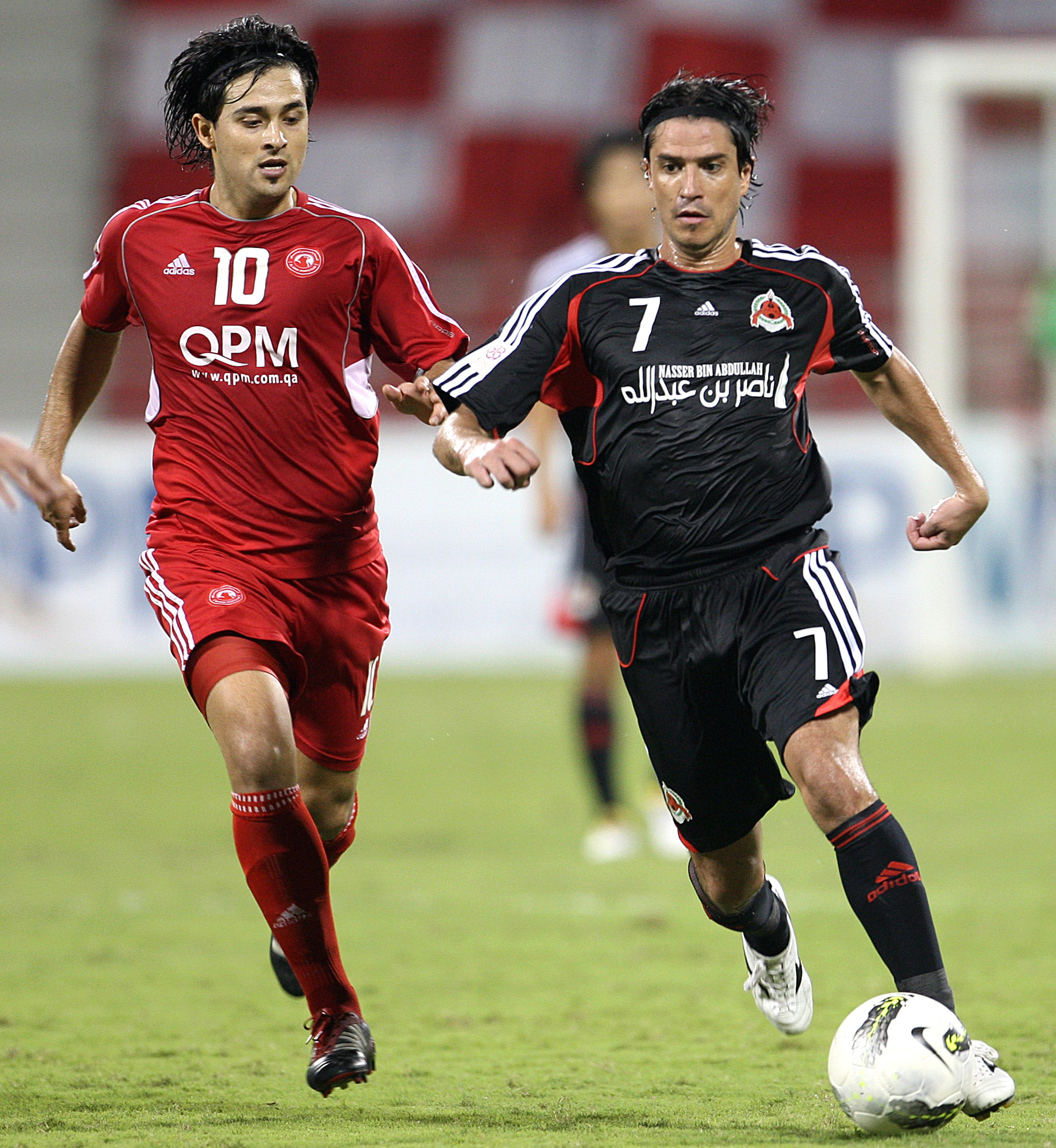 Al Arabi's Argentinian professional Leonardo Pisculichi vies for the ball with Al Rayyan's Fábio César Montezine in the Qatar Stars league match. Pic by Mohan